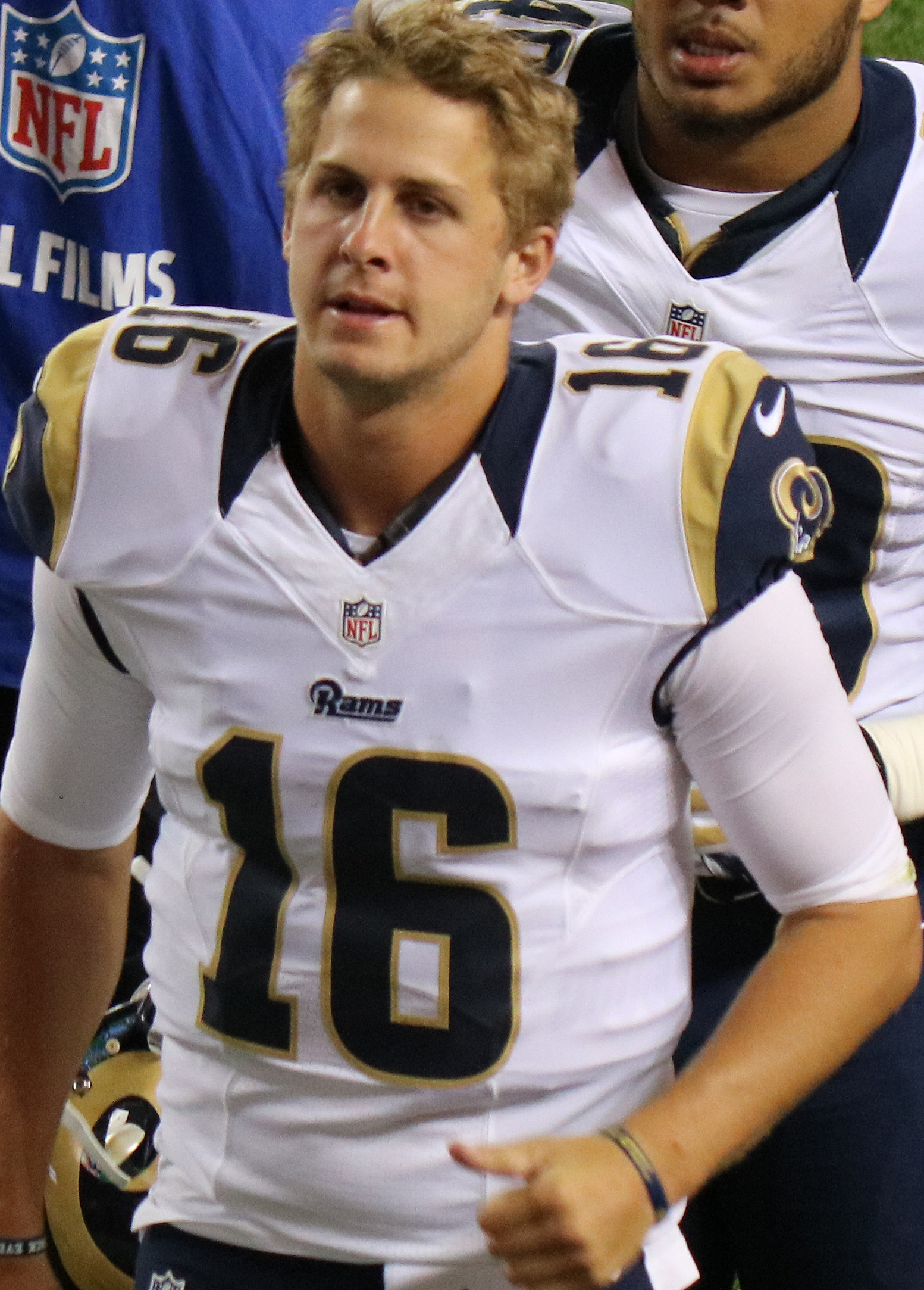 Jared Goff, a player on the National Football League.